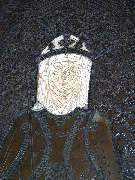 Sculpted image of Queen Ingiburga of Denmark (née Princess of Sweden) on her grave and that of her husband King Eric Meanwith at St. Benedict’s ChurchPlace: Ringstead, Denmark